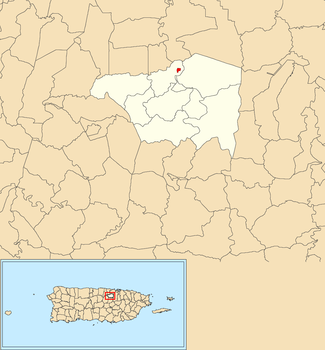 Toa Alta barrio-pueblo, Toa Alta, Puerto Rico locator map